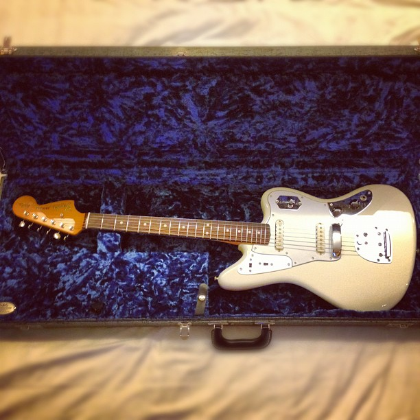 Fender Jaguar Johnny Marr signature